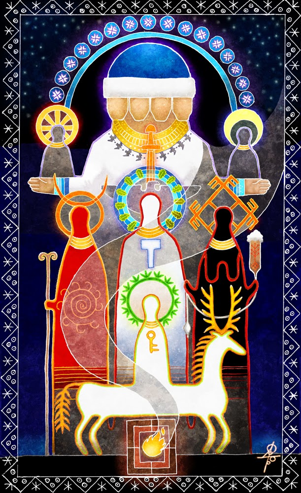 The artwork represents the seven major deities of Slavic theo-cosmology, together constituting the hierarchy emanating from the supreme God, Rod (the concept of generation itself). ① The central axis is Svarog ("Heaven"), comprising his three forms: the four-faced Svetovid ("Worldseer"), Perun ("Thunder") at the very centre, and Svarozhich ("Son of Heaven") below. Further below Svarozhich there is another form of he himself contained in a squared receptacle, Maria Ognevo ("Fire Goddess"). ② On the right and left hand of Svetovid there are, respectively, Belobog ("White God") and Chernobog ("Black God"), themselves in the guise of Dazhbog ("Day God") and Jutrobog ("Moon God"). They are the supreme polarity upon which all the alternating ways of divine manifestation rely. ③ To the left and to the right of the white figure of Perun, there are, respectively, the black figure of the great goddess Mokosh/Mat Syra Zemlya ("Wetness/Damp Mother Earth") and the red figure of Veles (the male god belonging to the Earth and god of tamed animals). ④ The three forms of Svarog and the three gods Perun, Veles and Mokosh constitute intersecting trinities (Triglav, Tribog), which correspond to the three dimensions: Prav, Yav and Nav. Prav, literally "Right", is ultimately the central axis of Heaven itself, functioning as the medium of all dimensions of space-time. In the guise of thunder (Perun) it impregnates matter (Mokosh), which retains its rhythmic squaring regulations (thus constituting Nav, which is the continuity of time); in the guise of the Son of Heaven it comes to light in present reality (Yav), and is fostered by humanity (Veles), and preserved as the hearth (Ognebog).